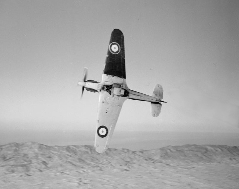 A Hawker Hurricane Mark I of No. 213 Squadron RAF based at Famagusta, Cyprus, banks away from the photographer's aircraft over the mountains of Cyprus. Note the undersurface paint scheme used - with considerable variation - to identify operational RAF fighters in the early years of the Second World War. In this case the aircraft's azure-blue undersurface has been augmented by painting the port wing matt black.